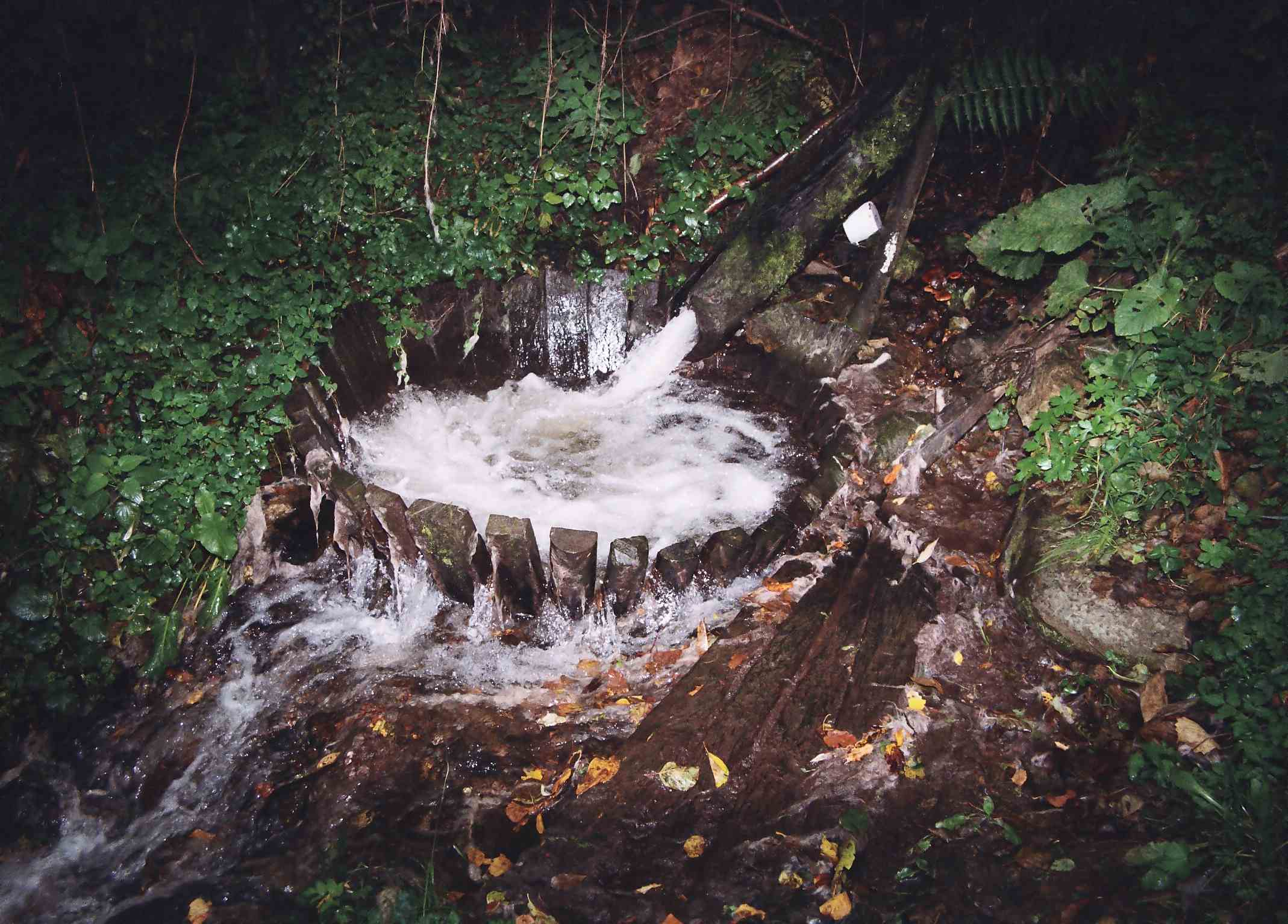 Valavica1